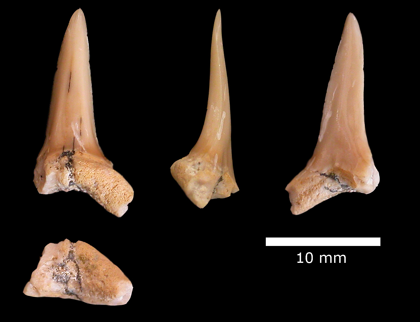 [i]Carcharias samhammeri[/i] tooth, Menuha Formation (Upper Cretaceous), southern Israel